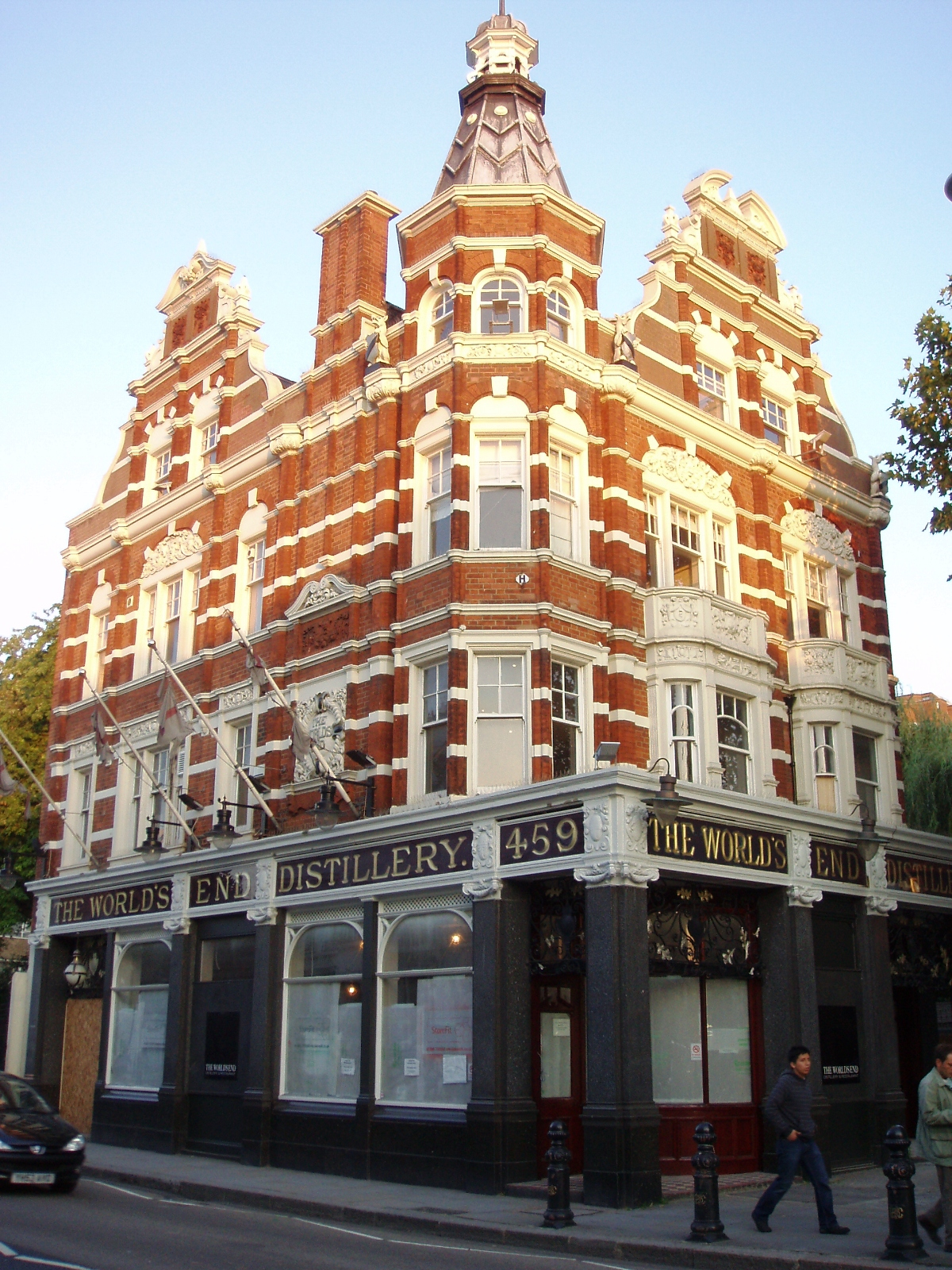 A pub reinvented as "distillery and restaurant" (i.e. gastropub), but now closed once again. Address: 459 Kings Road. Former Name(s): The World's End; The Old World's End. Owner: Watney Combe Reid (former). Links: Fancyapint Beer in the Evening Dead Pubs (history)